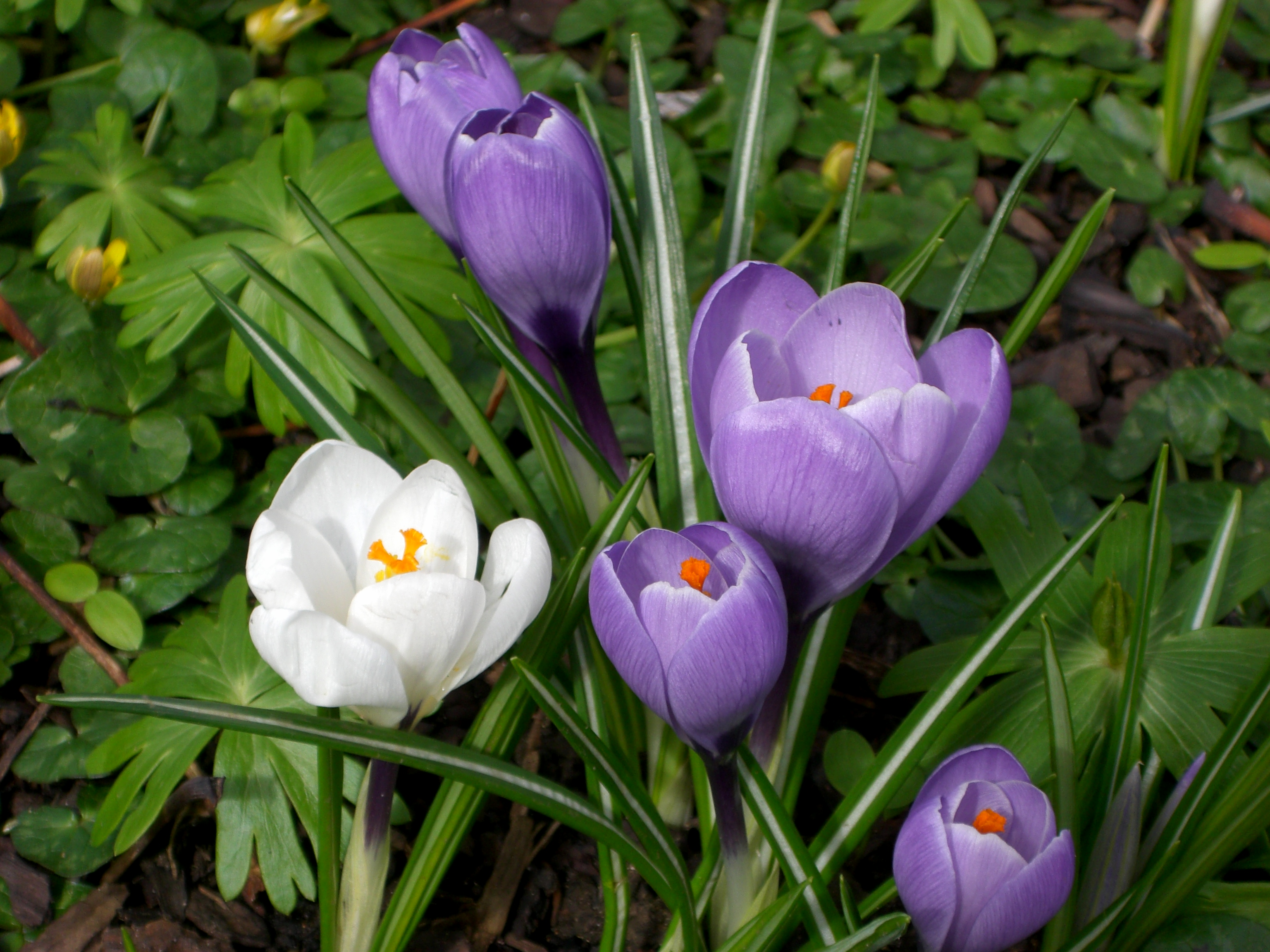 A group of purple Crocus vernus, with one white specimen.